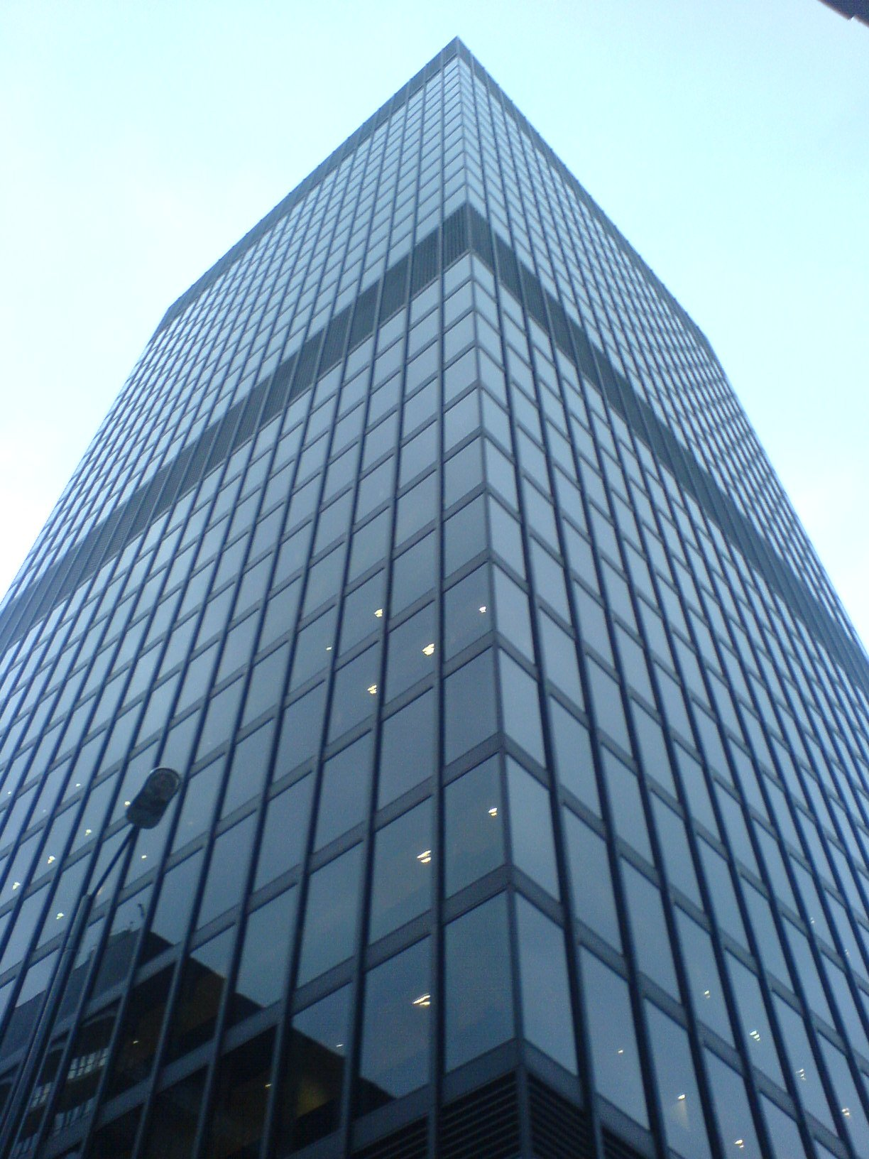 St Helen's, London. I took this